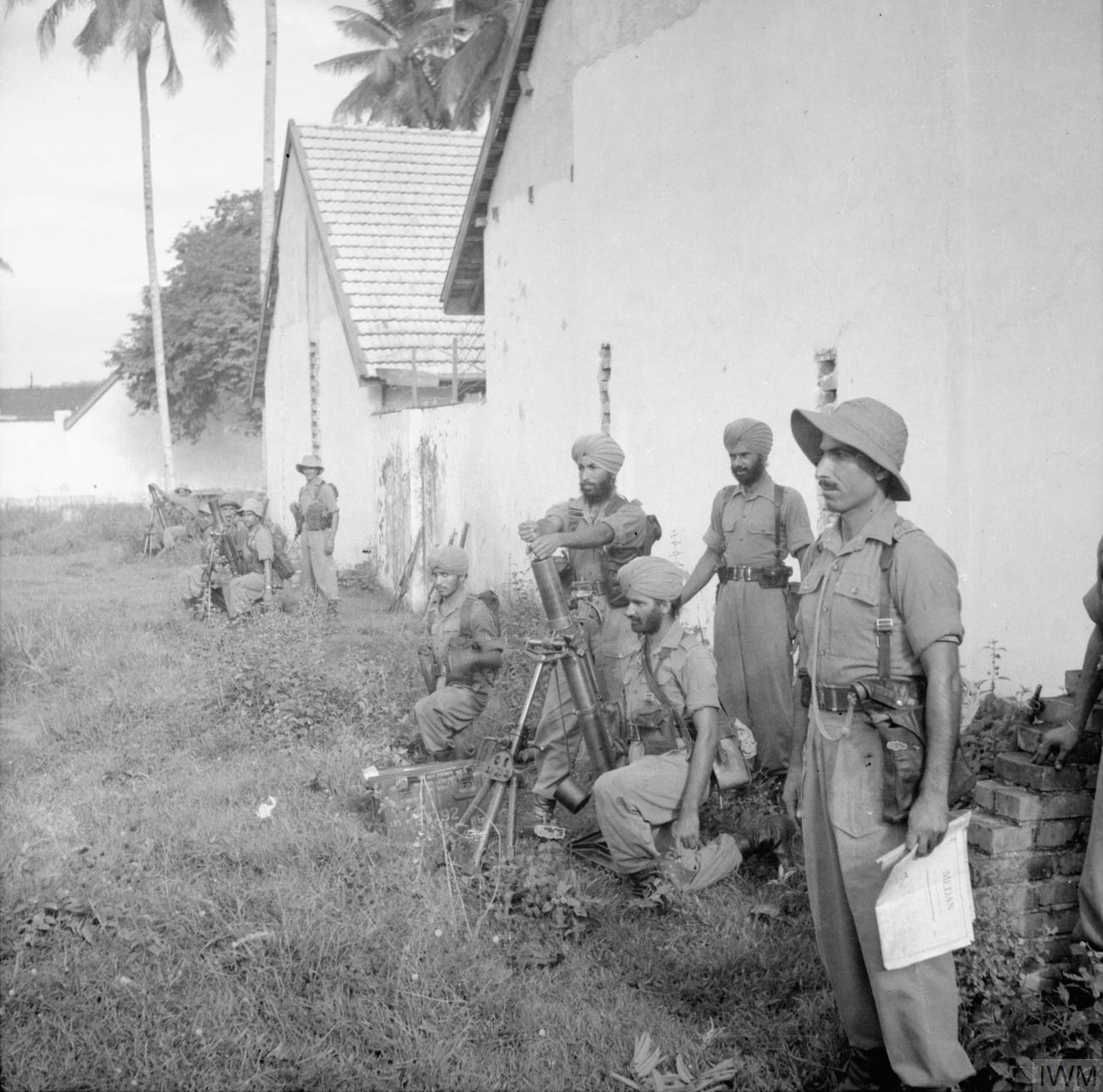 The Allied Occupation of Sumatra Troops of the 2nd Battalion, Frontier Force Rifles (26th Indian Division) manning 3 inch mortars at their newly established strongpoint just outside the British held sector of the town of Medan in Sumatra.